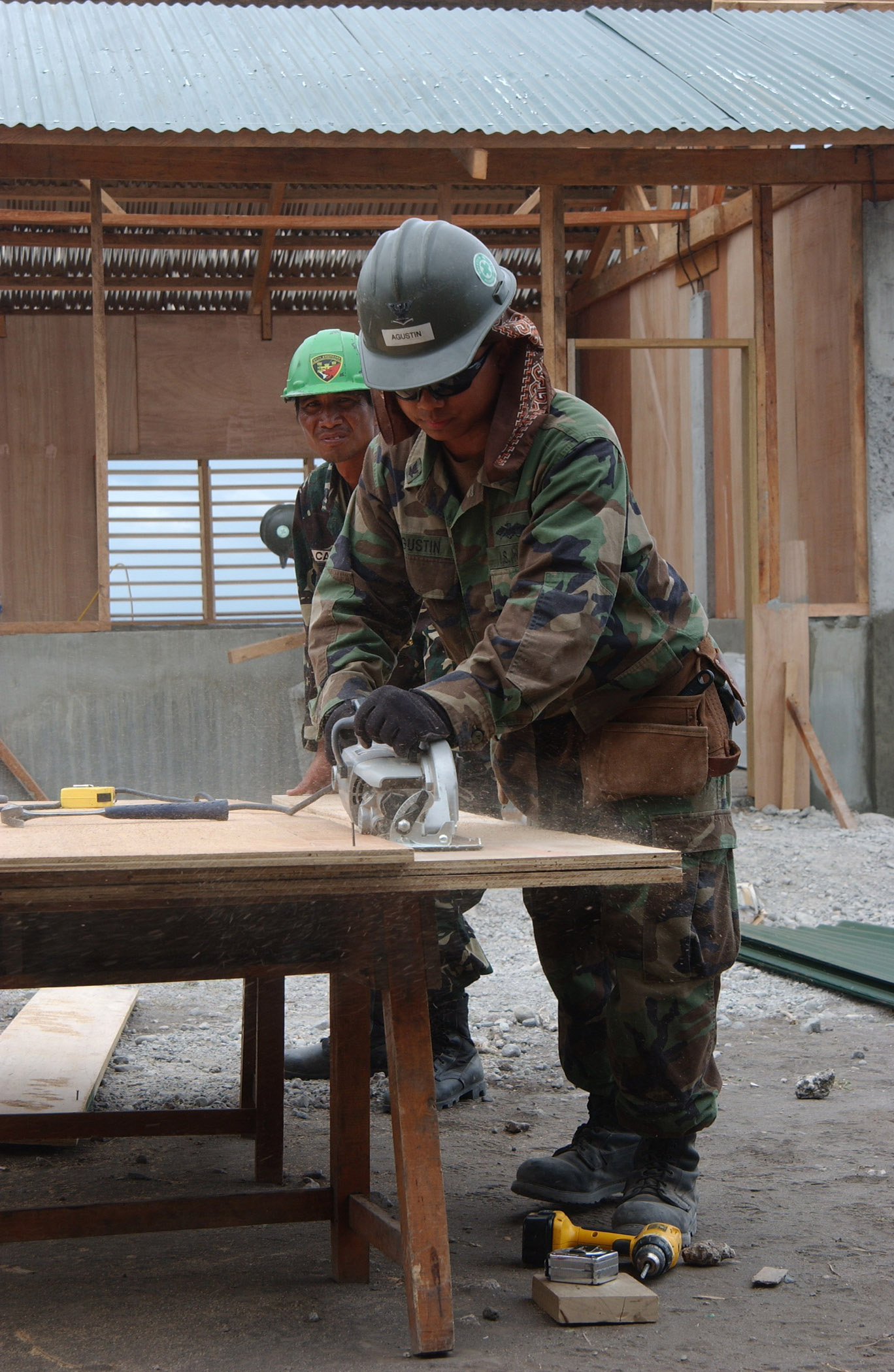 A Filipino soldier assists U.S. Navy Builder 3rd Class Rouel Agustin, front, from Naval Construction Battalion Three, in cutting a piece of plywood for the Chongco primary school in General Santos City, Philippines, Feb. 14, 2007. The new building is being constructed as part of Project Friendship, a humanitarian assistance/community service project with the Armed Forces of the Philippines. ID: 070214-N-4198C-001